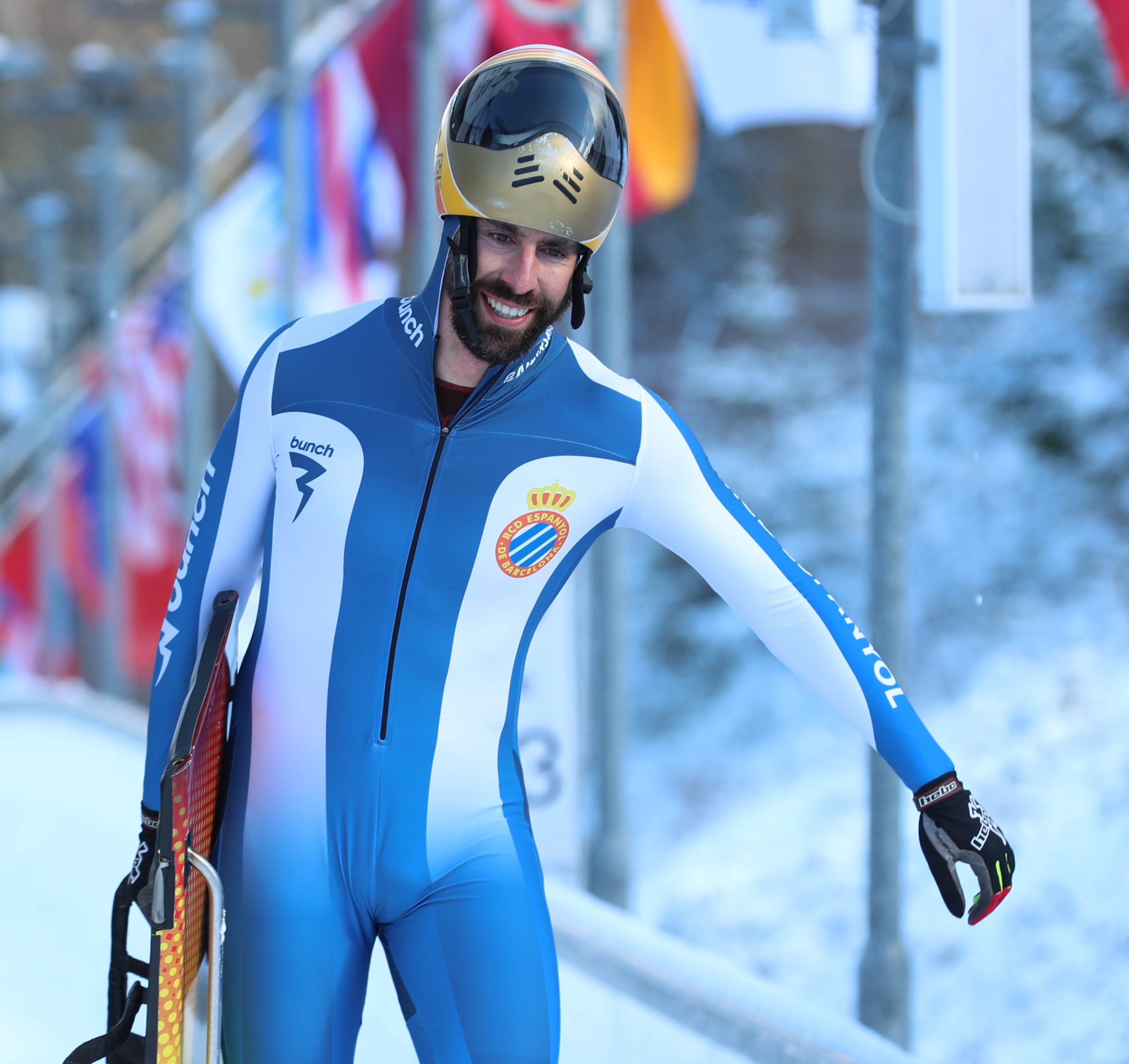 Training at the Men's Skeleton at the Bobsleigh and Skeleton World Championships 2020 in Altenberg